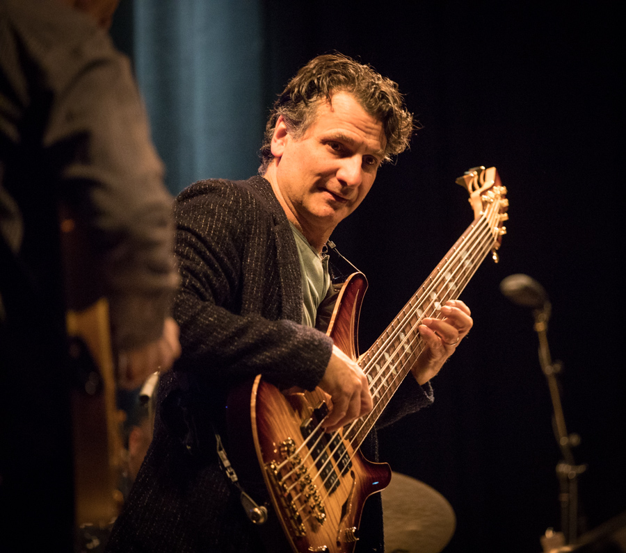 John Patitucci Electric Guitar Quartet at the stage of Cosmopolite. The concert took place on 12. May 2017 in Oslo. Lineup: John Patitucci (bass guitar) Adam Rogers (guitar) Steve Cardenas (guitar) Nate Smith (drums)